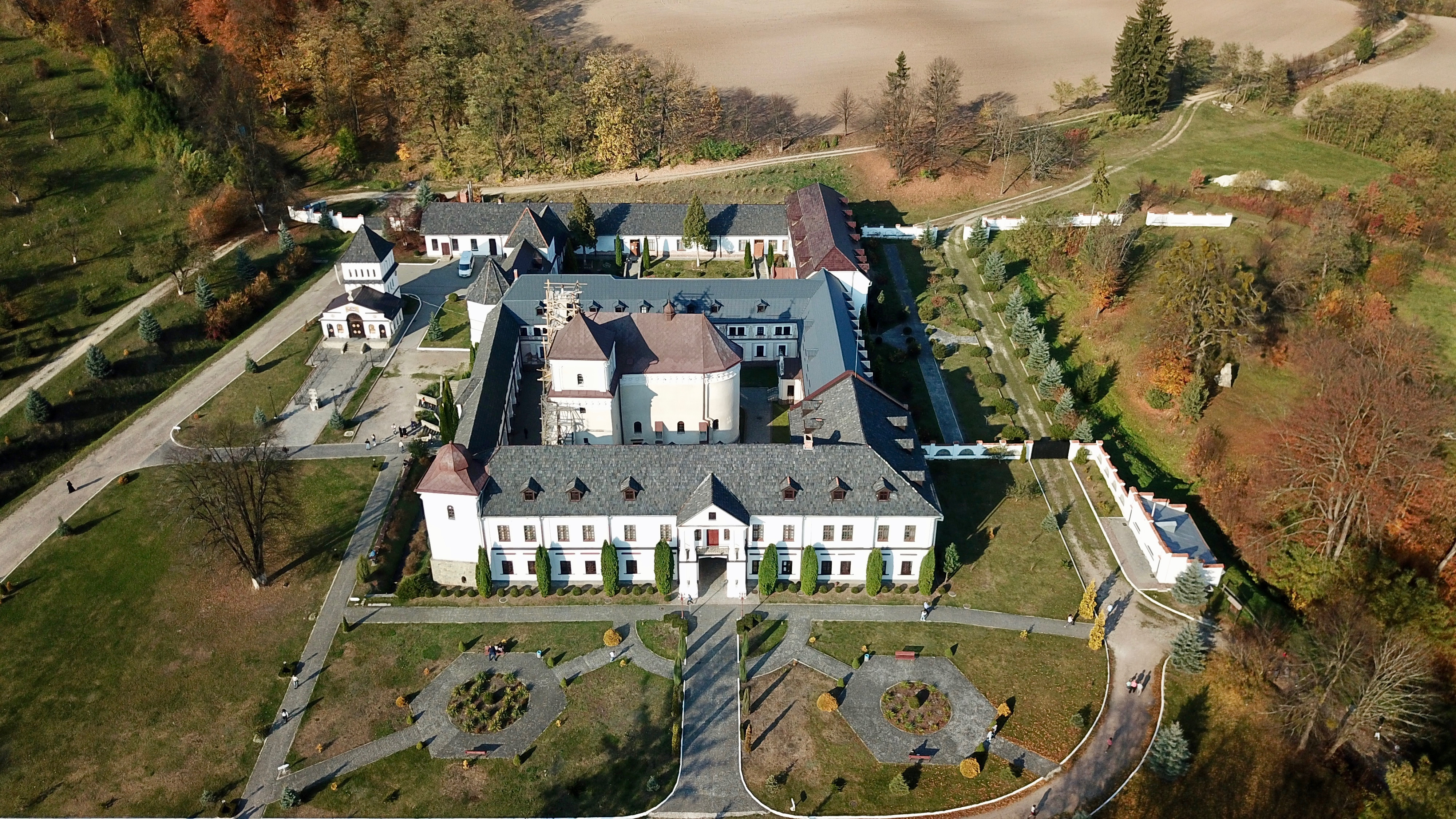 Aerial view of Univ Lavra (Lviv region, Ukraine)